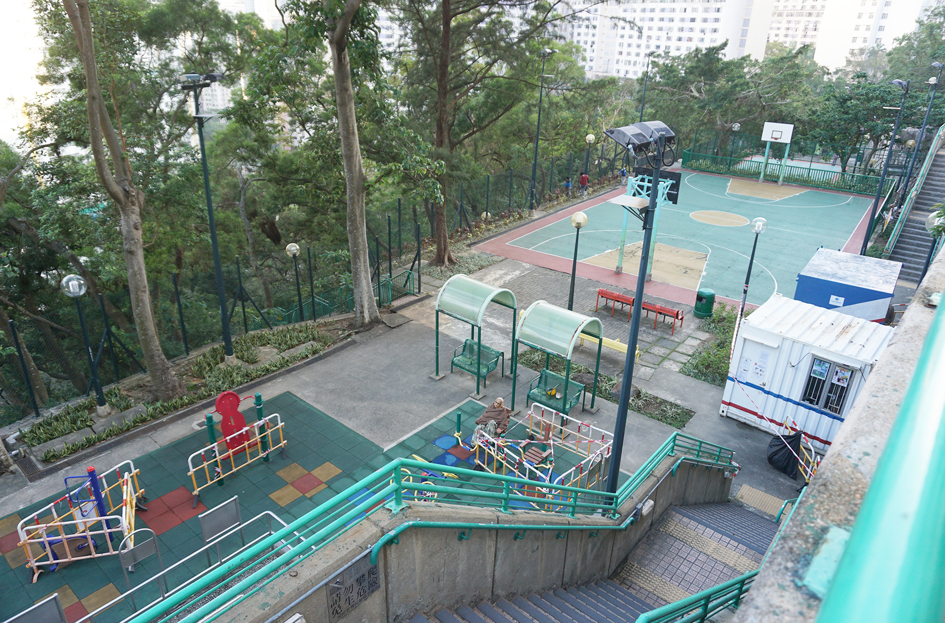 Hing Man Estate in Chai Wan, Hong Kong.